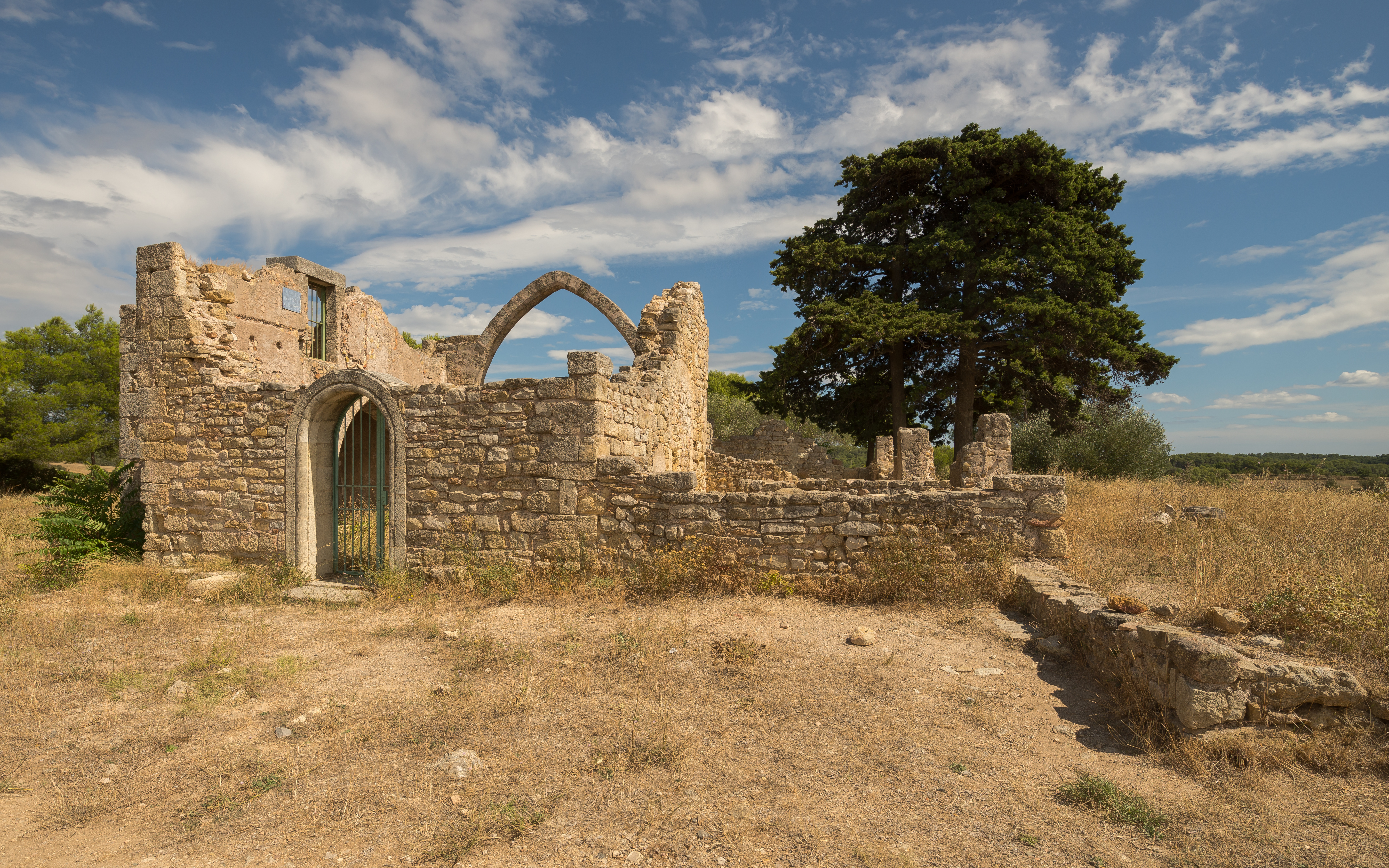 Ruins of the Hermitage Saint-Antoine (XVIth ou XVIIth century) formely used by hermits to make their retreats. View from West. Castelnau-de-Guers, Hérault, France.